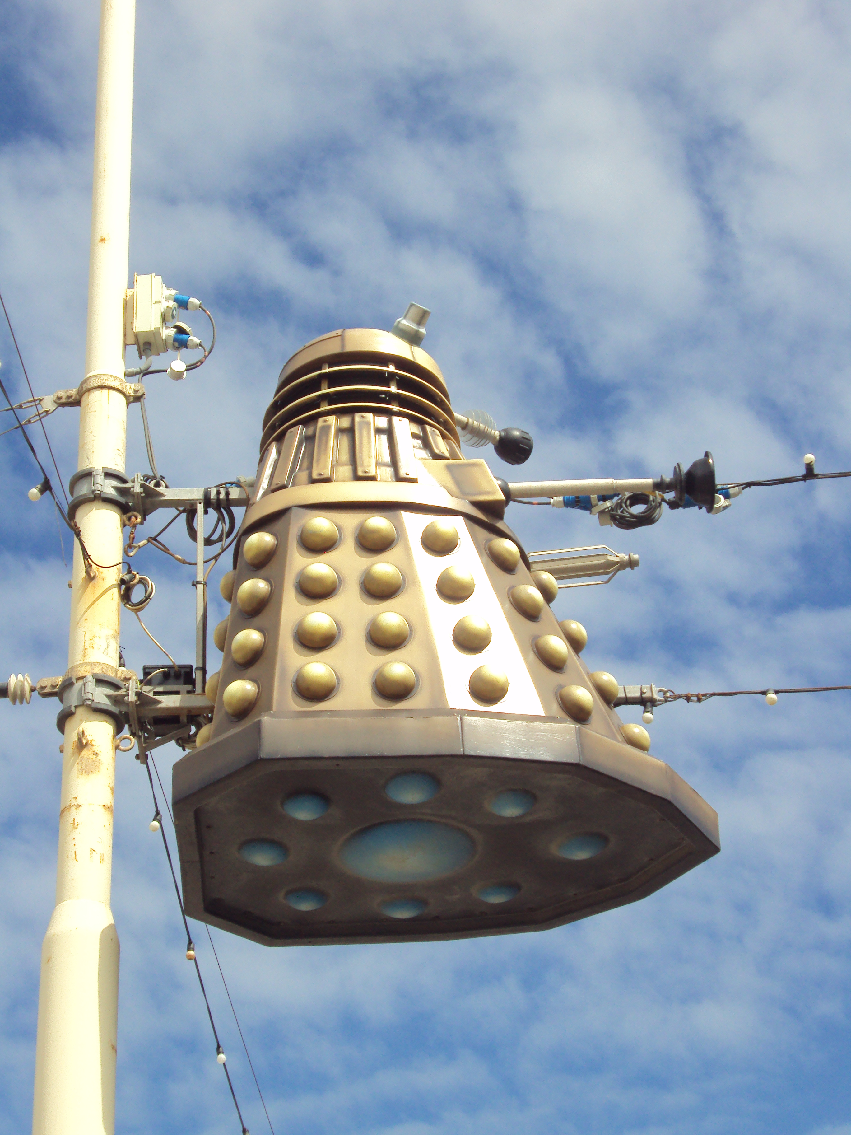 Dalek at Blackpool Illuminations, Blackpool promenade, Lancashire.